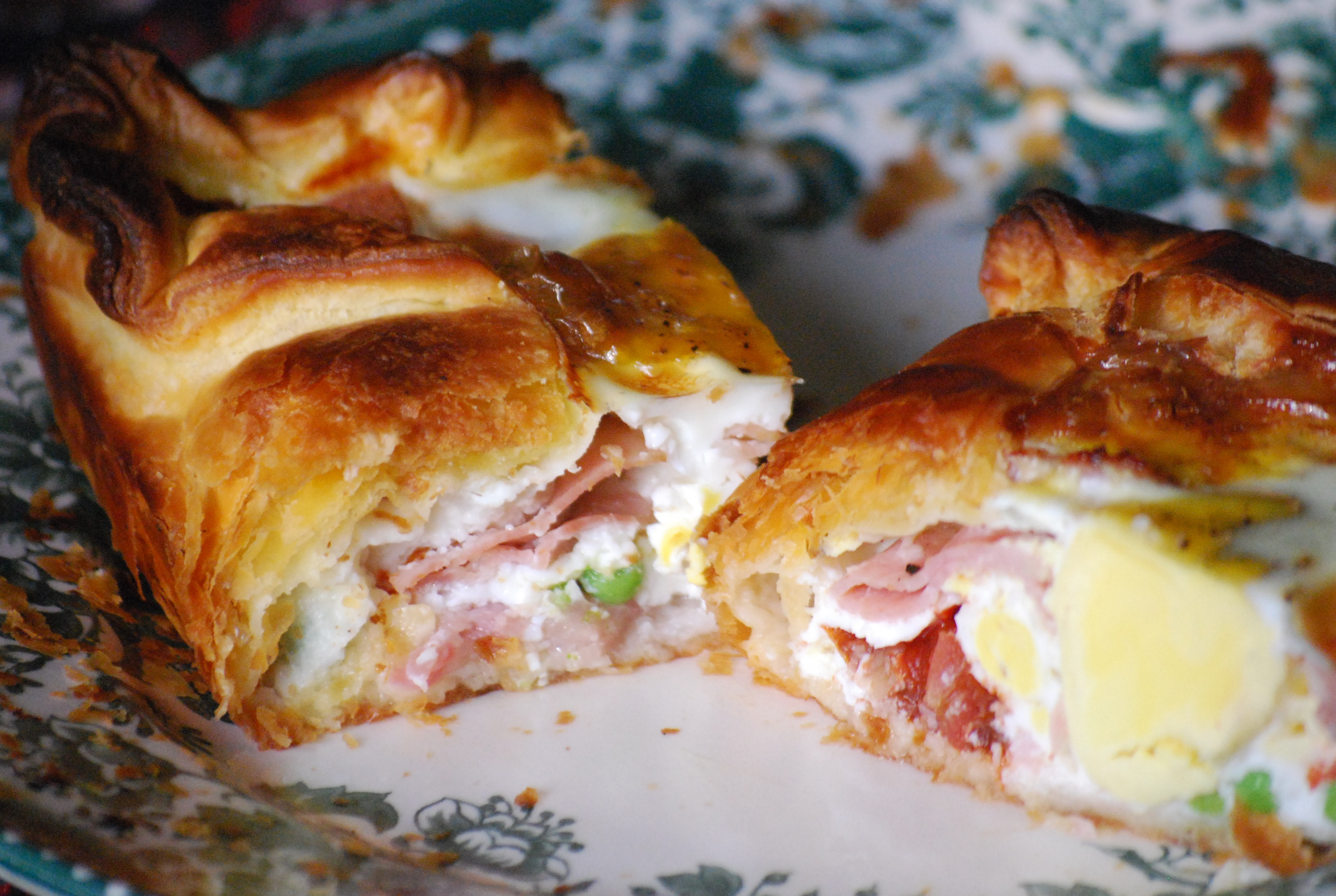 Proper bacon and egg pie